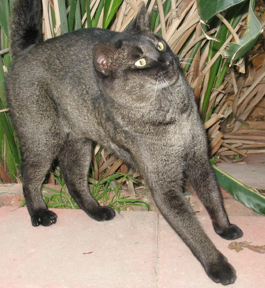 Adult male Chausie, black grizzled tabby